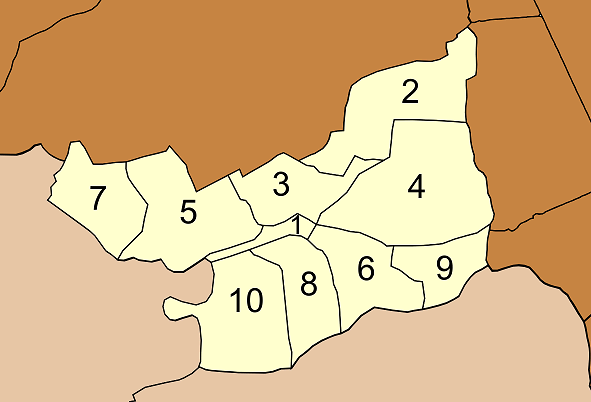 Map of Krathum Baen district, Samut Sakhon province, with the communes (tambon) numbered Talat Krathum Baen (ตลาดกระทุ่มแบน) Om Noi (อ้อมน้อย) Tha Mai (ท่าไม้) Suan Luang (สวนหลวง) Bang Yang (บางยาง) Khlong Maduea (คลองมะเดื่อ) Nong Nok Khai (หนองนกไข่) Don Kai Di (ดอนไก่ดี) Khae Rai (แคราย) Tha Sao (ท่าเสา)